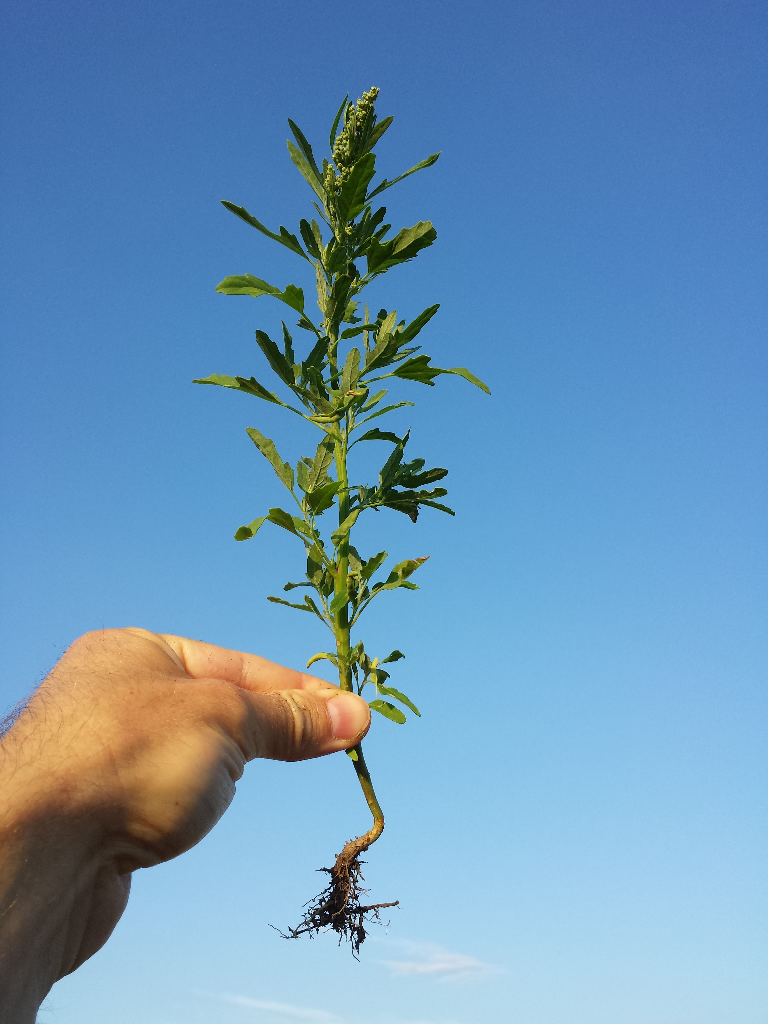 Habitus Taxonym: Chenopodium ficifolium subsp. ficifolium ss Fischer et al. EfÖLS 2008 ISBN 978-3-85474-187-9 Location: Nordmanngasse, Donaufeld, Vienna-Floridsdorf - ca. 160 m a.s.l. Habitat: humid field